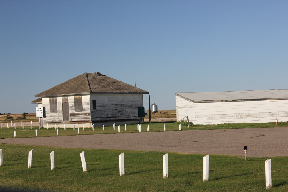 Luseland Airport :en:Airport codes||||CJR2 , is located adjacent to Luseland, Saskatchewan, Canada.